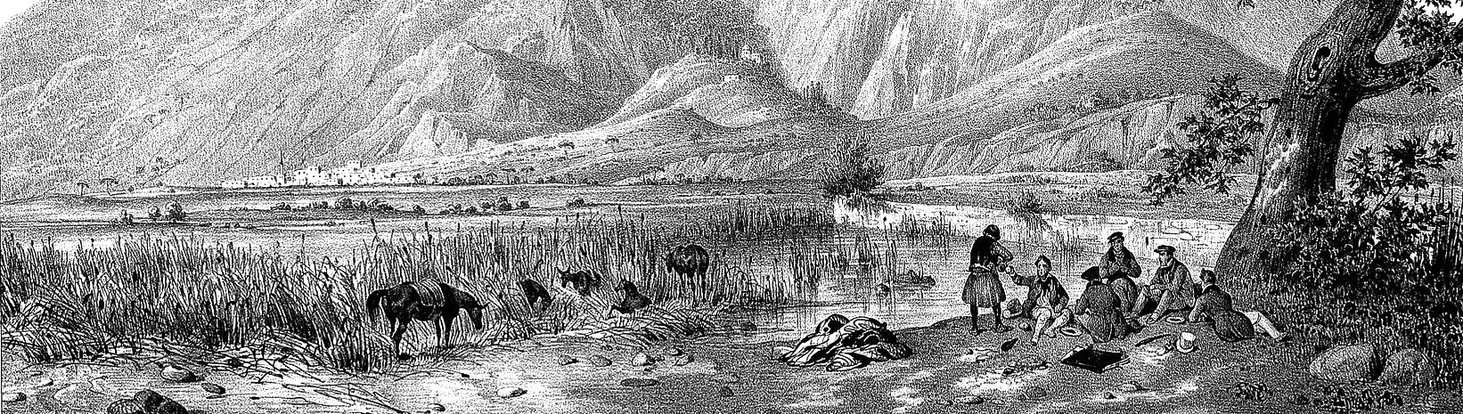 Lithograph (detail) by Prosper Baccuet representing the scientists of the Morea Expedition resting in front of Mounts Ithome and Evan, seen from Agios Flores in 1829 (1836)